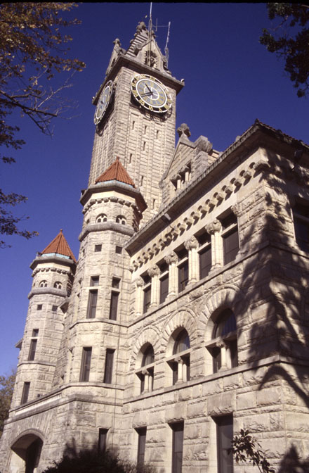 County Courthouse Photos: Wood County Courthouse (Built 1894-1896), Bowling Green, Ohio